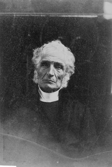 Right Reverend Bishop George J. Mountain.